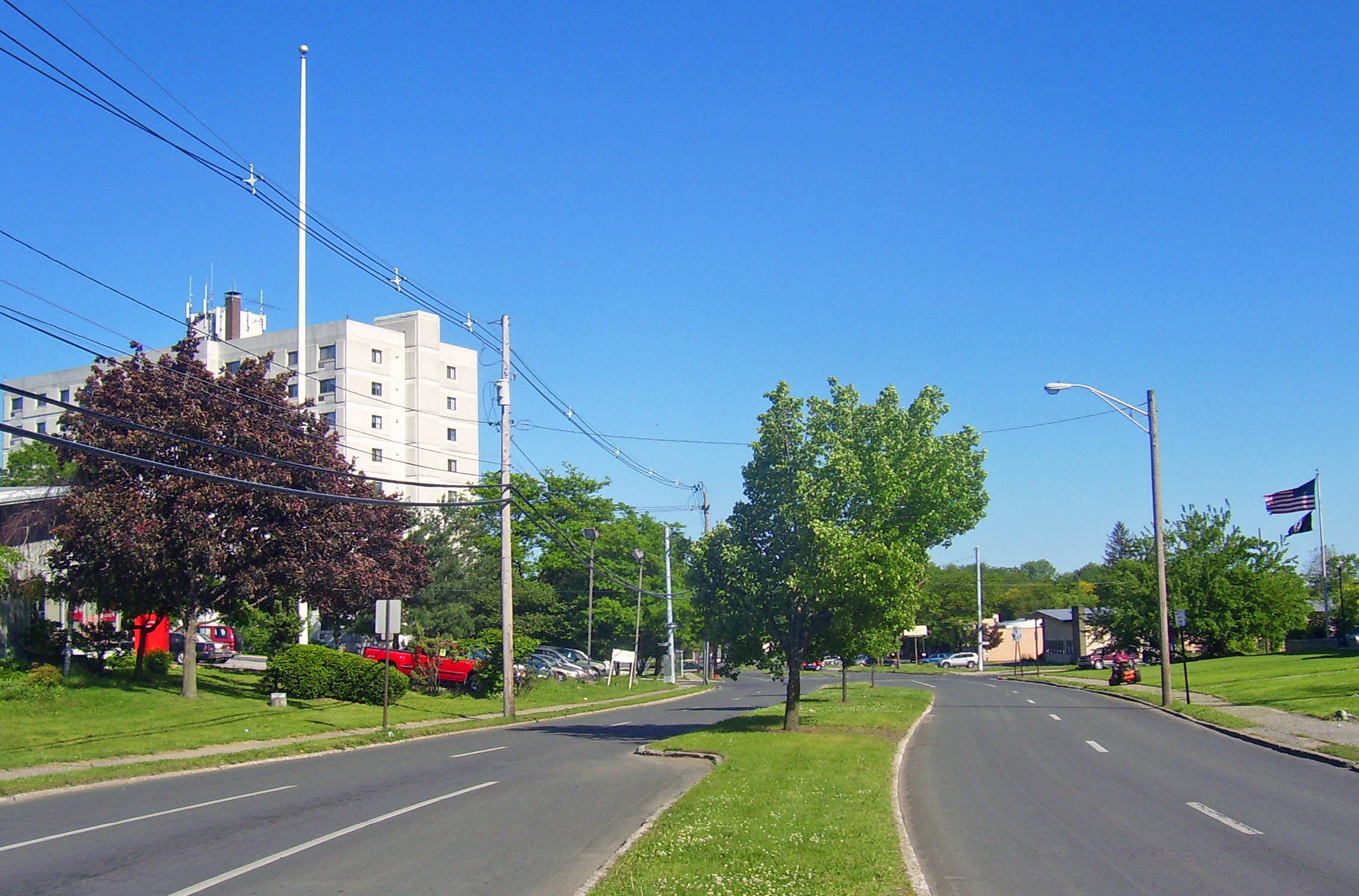 Looking east along a short parkway stretch NY 17M, Fulton Avenue in Middletown, NY, USA